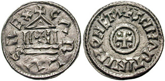 Kings of France. Charles II le Chauve (Charles the Bald. 843-877. AR Denier (1.41 gm). St. Martin de Tours mint. Struck 843-864. Temple Small cross, pellets in angles, within inner circle. M&G 920; Prou 441; Depeyrot 1054; MEC 1, 845.